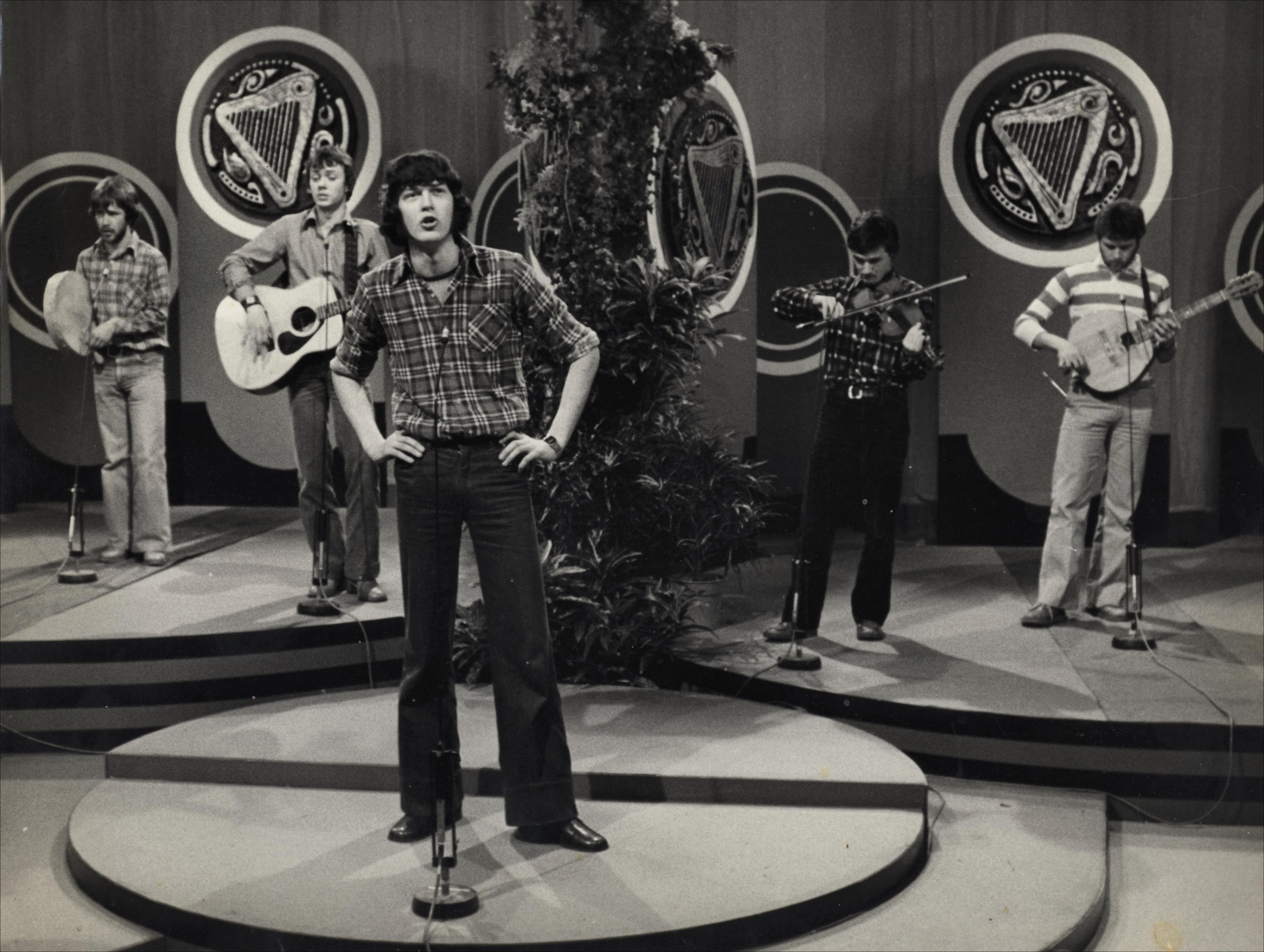 'Cilmeri' folk group, perfforming 'Ar hyd y glannau', a modern folk song; Cilmeri came second in the competition, with 'Bran' perfforming 'Caledfwlch' winning. In the picture: Ywain Myfyr, Elwyn Rowlands, Robin Owain (voice), Huw Roberts and Tudur Huws Jones.